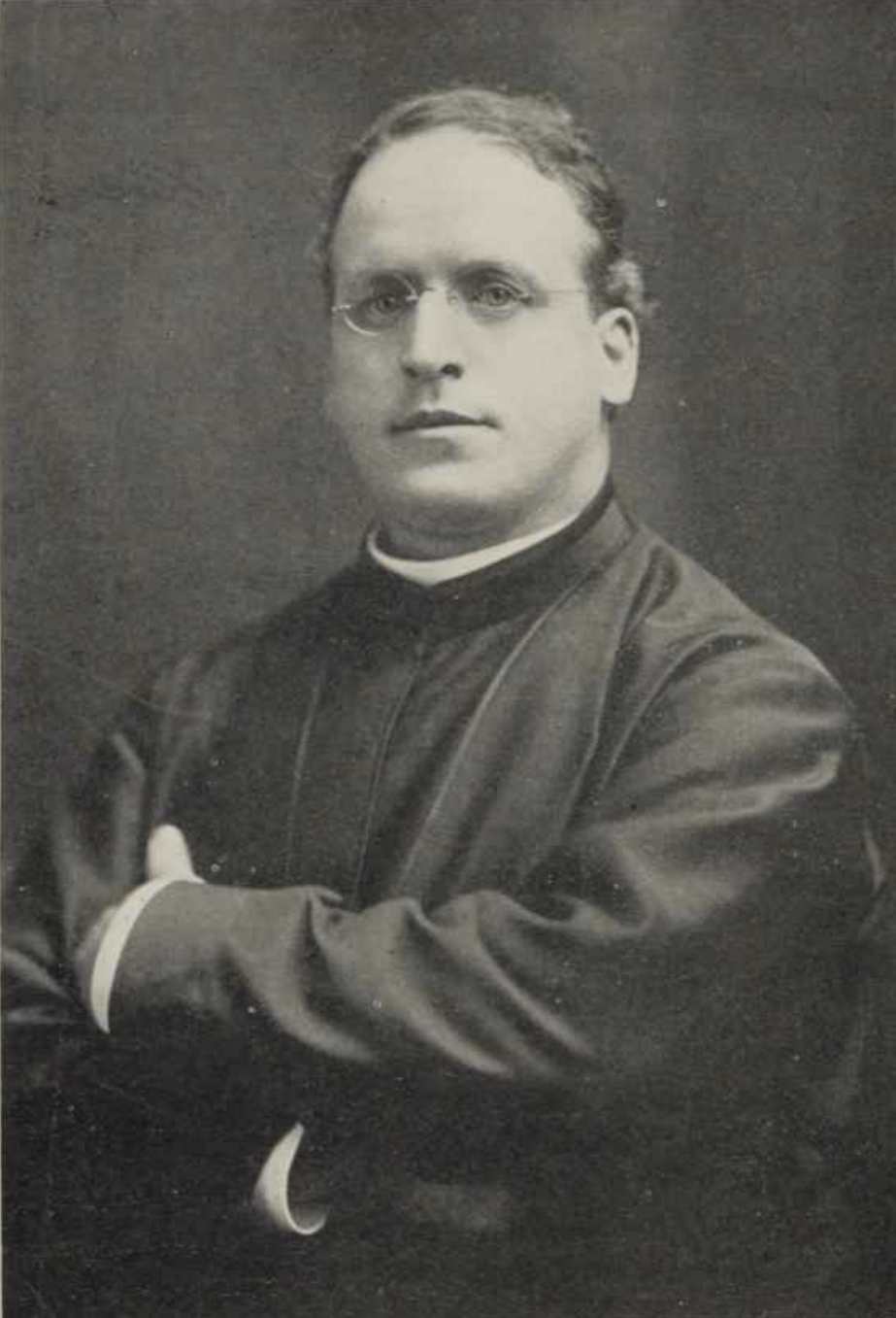 Photograph of the Rev. Charles W. Lyons, S.J., president of Boston College